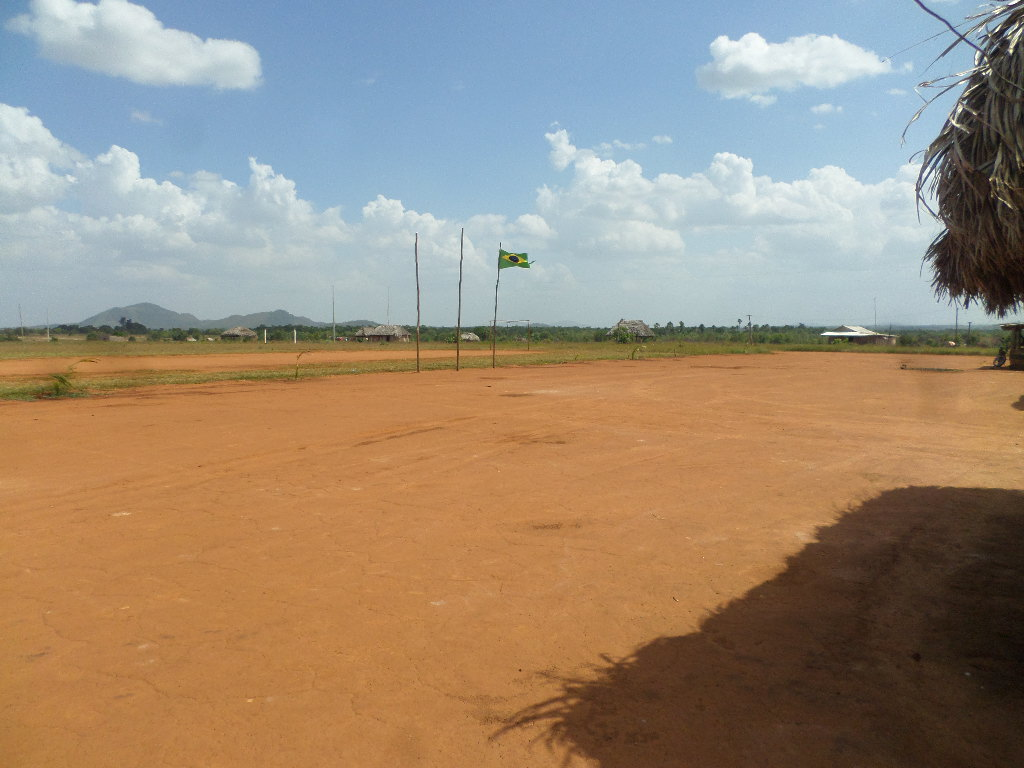 Indigenous Village Muriru